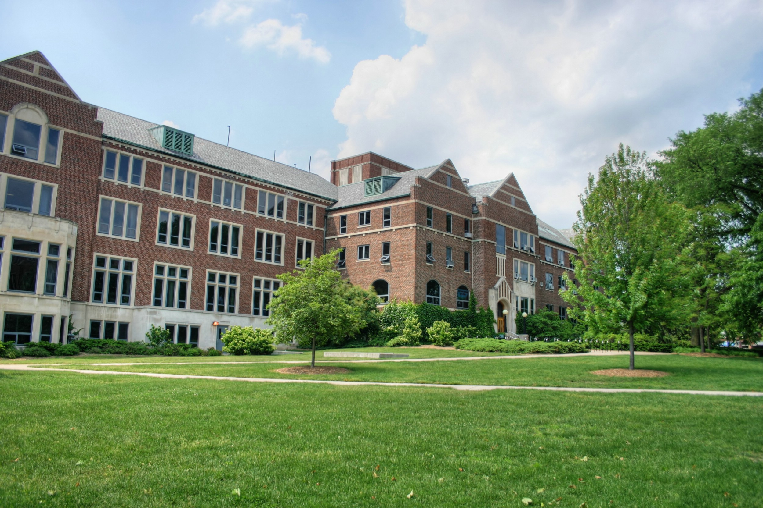 A photograph of the MSU Union Building located on the Michigan State University campus in East Lansing, Michigan. This photograph is one of a series taken for Wikipedia by the submitter on May 28th, 2006 between the hours of 3pm and 6pm.